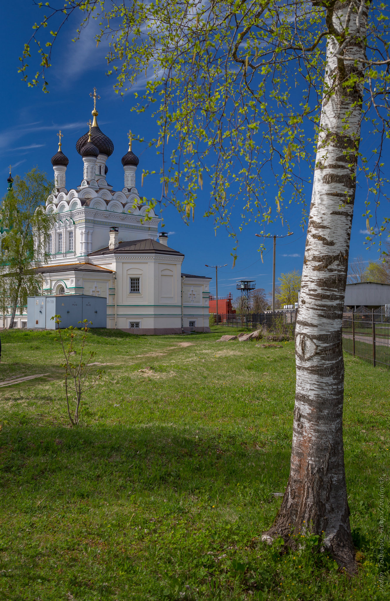 An Orthodox church in Ivangorod's suburbs